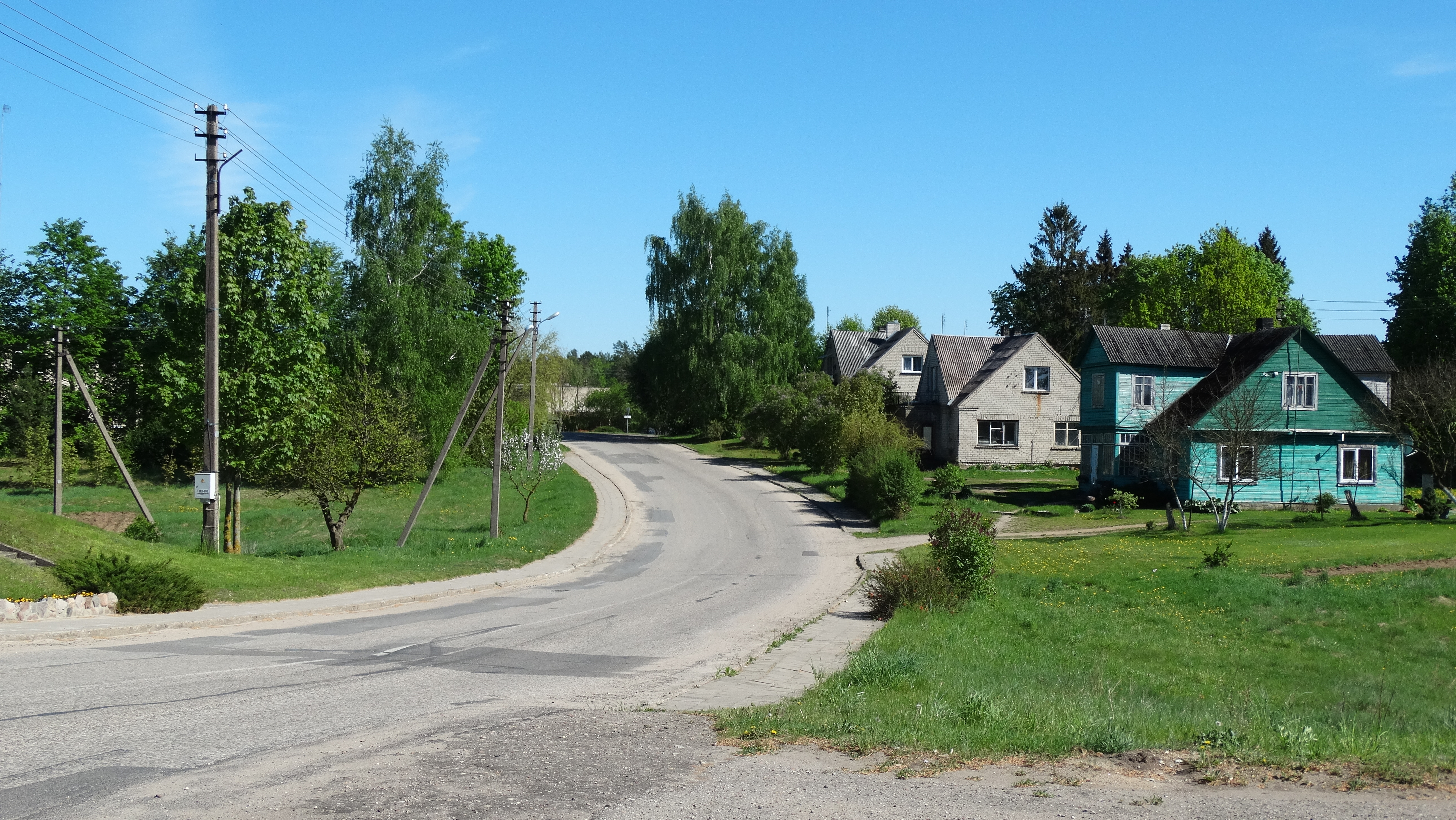 Toliejai, Molėtai District, Lithuania